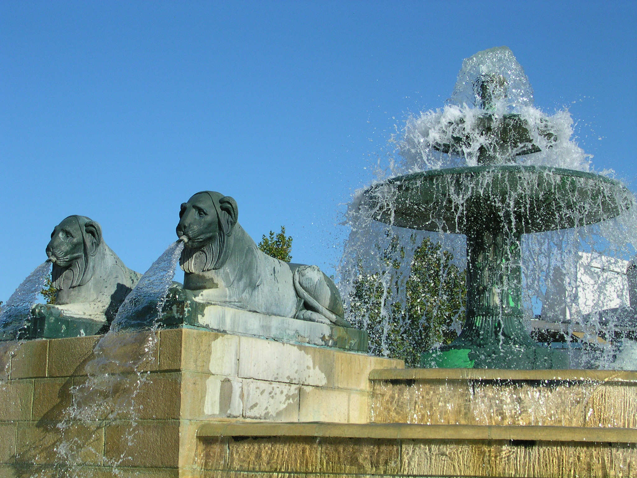 Château d'eau fountain in Paris, XIXe arrondissement (France). Design by Girard engineer at the Parsi water dept during the 1st empire.